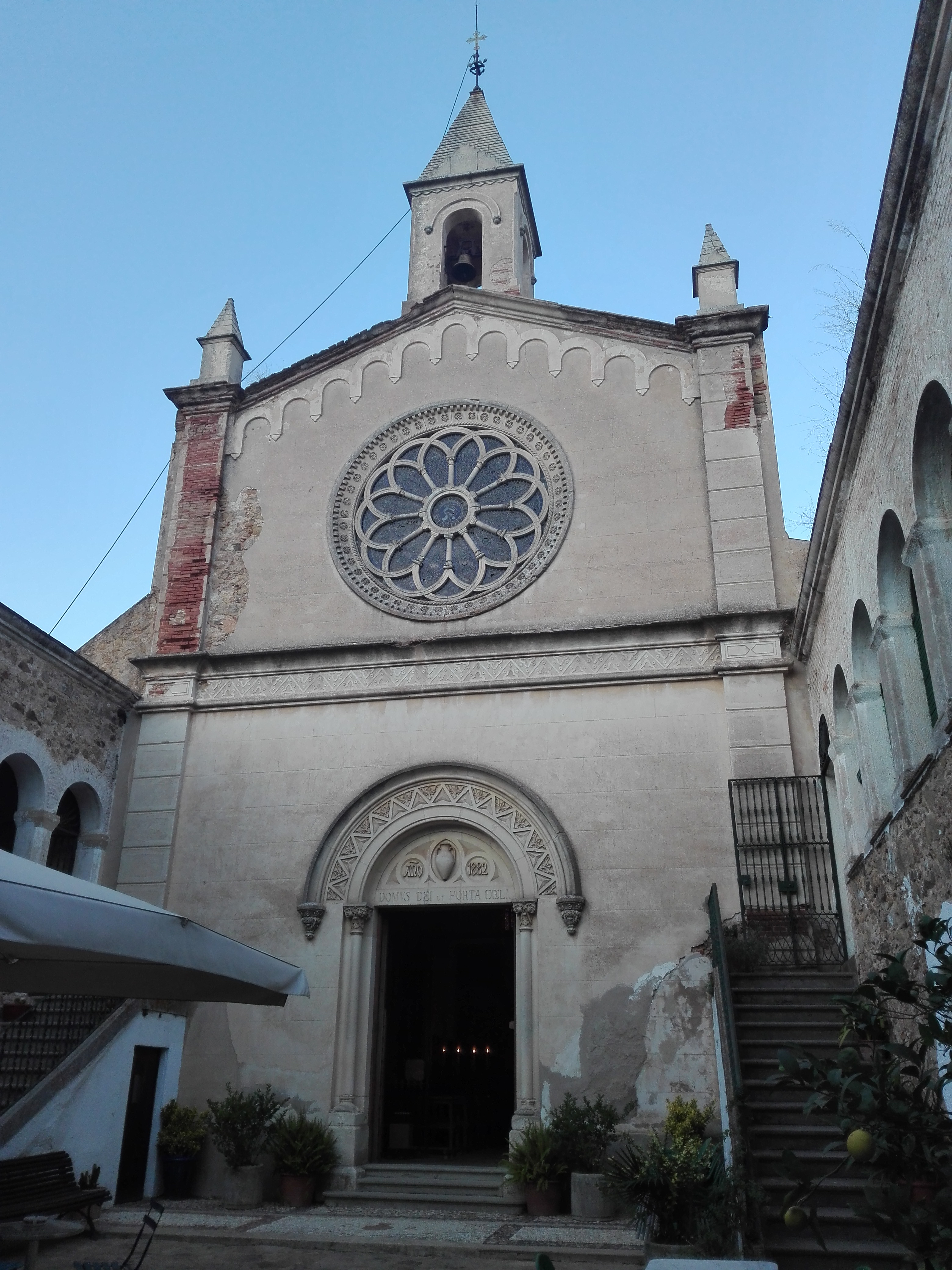 Chapel façade of Sant Grau d'Ardenya.